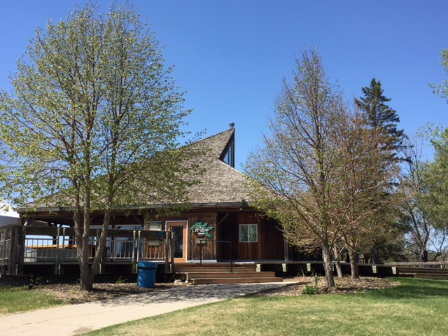 The Willow on Wascana, Regina, Saskatchewan